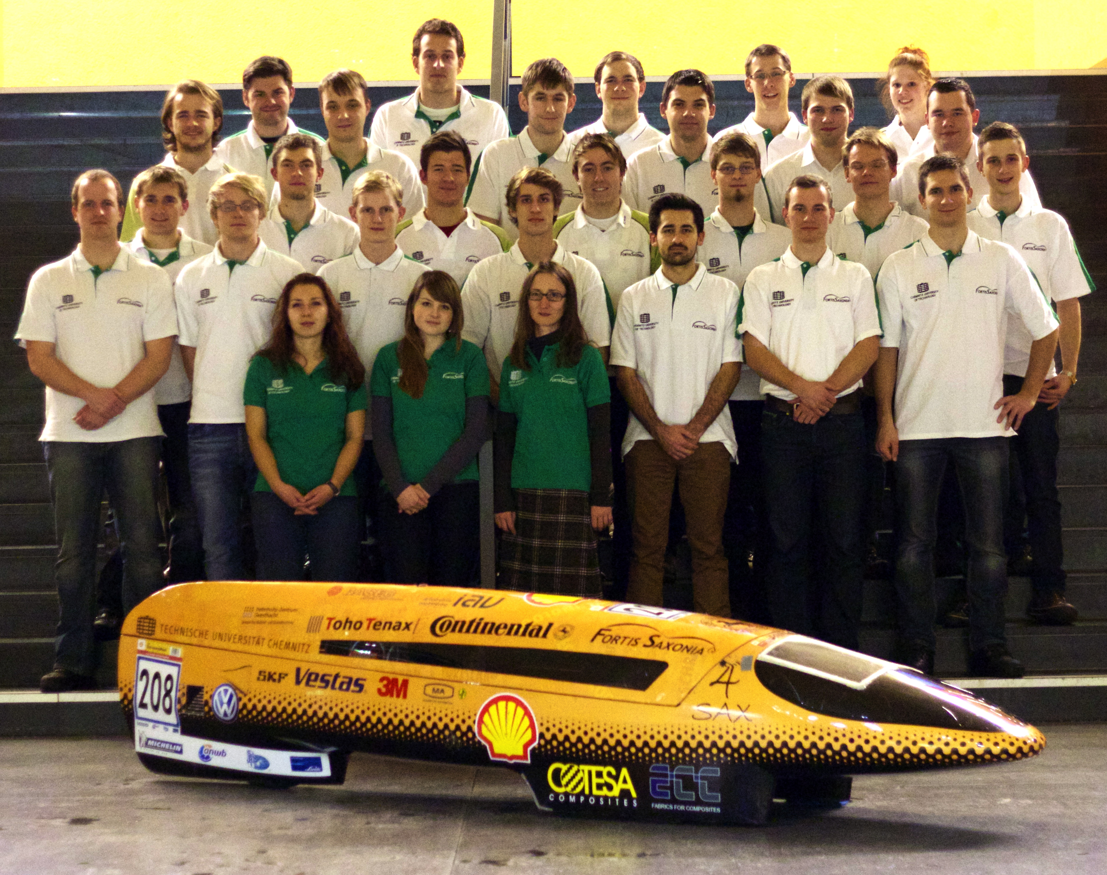 The team of Fortis Saxonia 2012